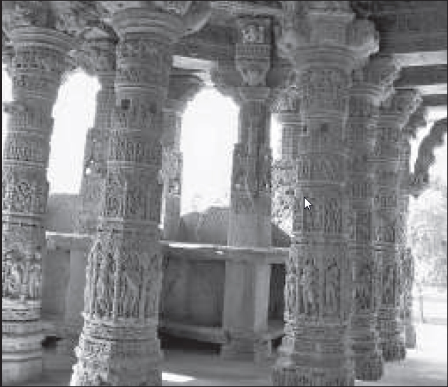 ಮೊಧೇರದ ಸೂರ್ಯದೇವಾಲಯದ ಕೆತ್ತನೆ ಕಂಬಗಳು